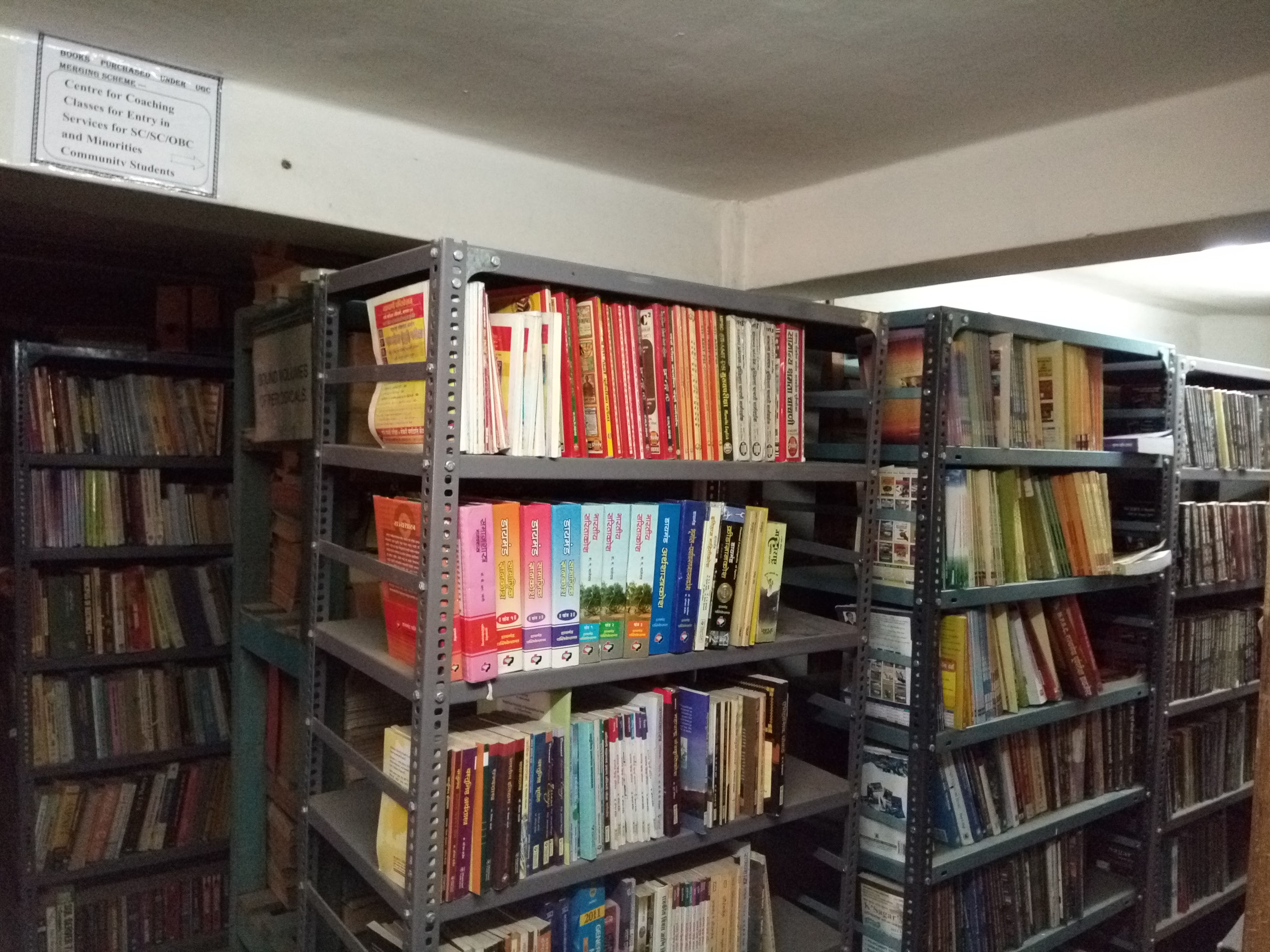 Periodical Section